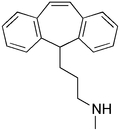 chemical structure of protriptyline